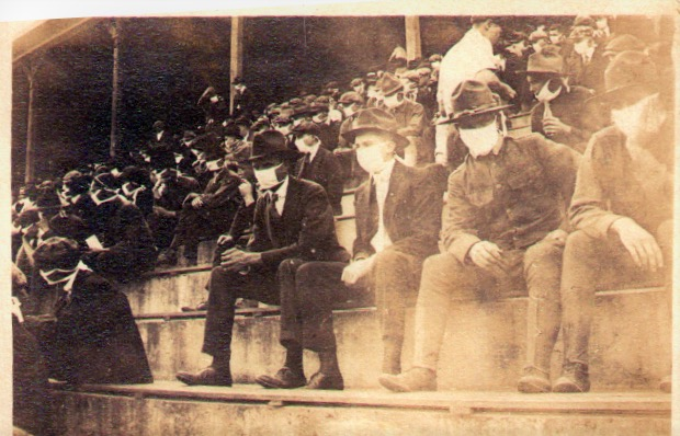 Photo of the crowd at an undetermined 1918 Georgia Tech home football game. Almost everyone in the crowd is wearing face masks due to the Spanish flu pandemic.